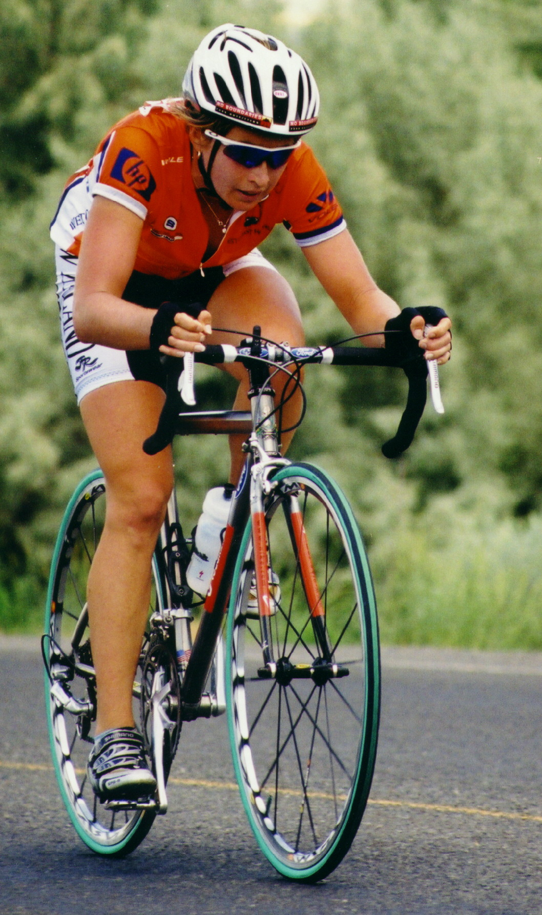 Sarah Ulmer is shown climbing a hill part way through stage 7 (Twin Falls to Buhl Road Race) of the 2002 Women's Challenge. She is wearing the orange jersey, emblematic of being the sprint points leader at this stage of the race.